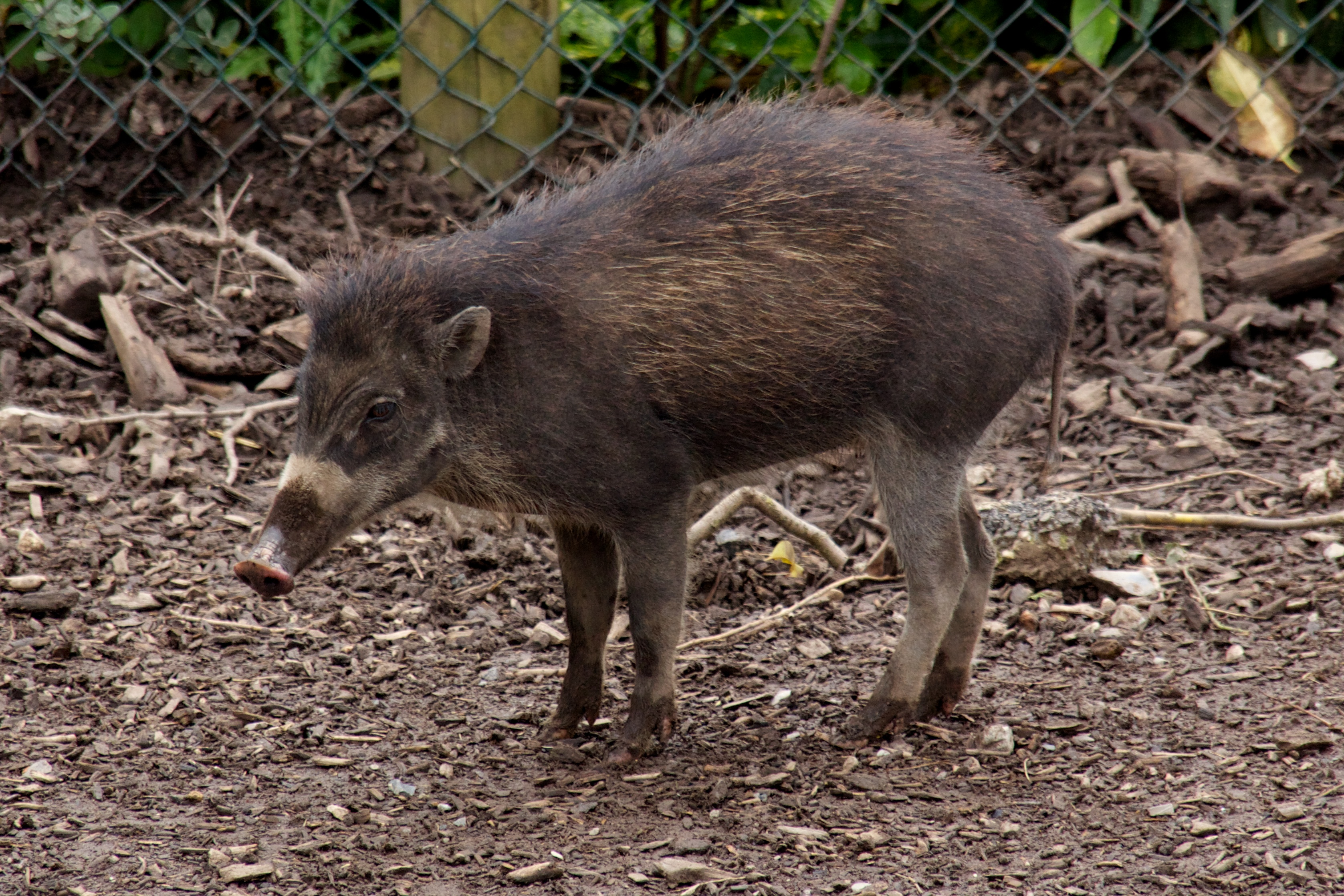 Visayan Warty Pig, Chester Zoo.